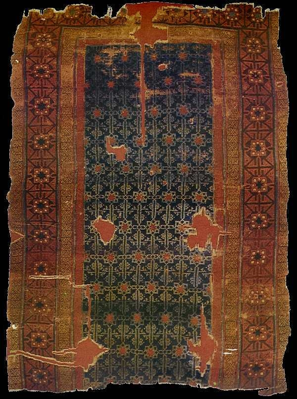 Important Seljuk Carpet Fragment, 13th Century. Photo CL Lane